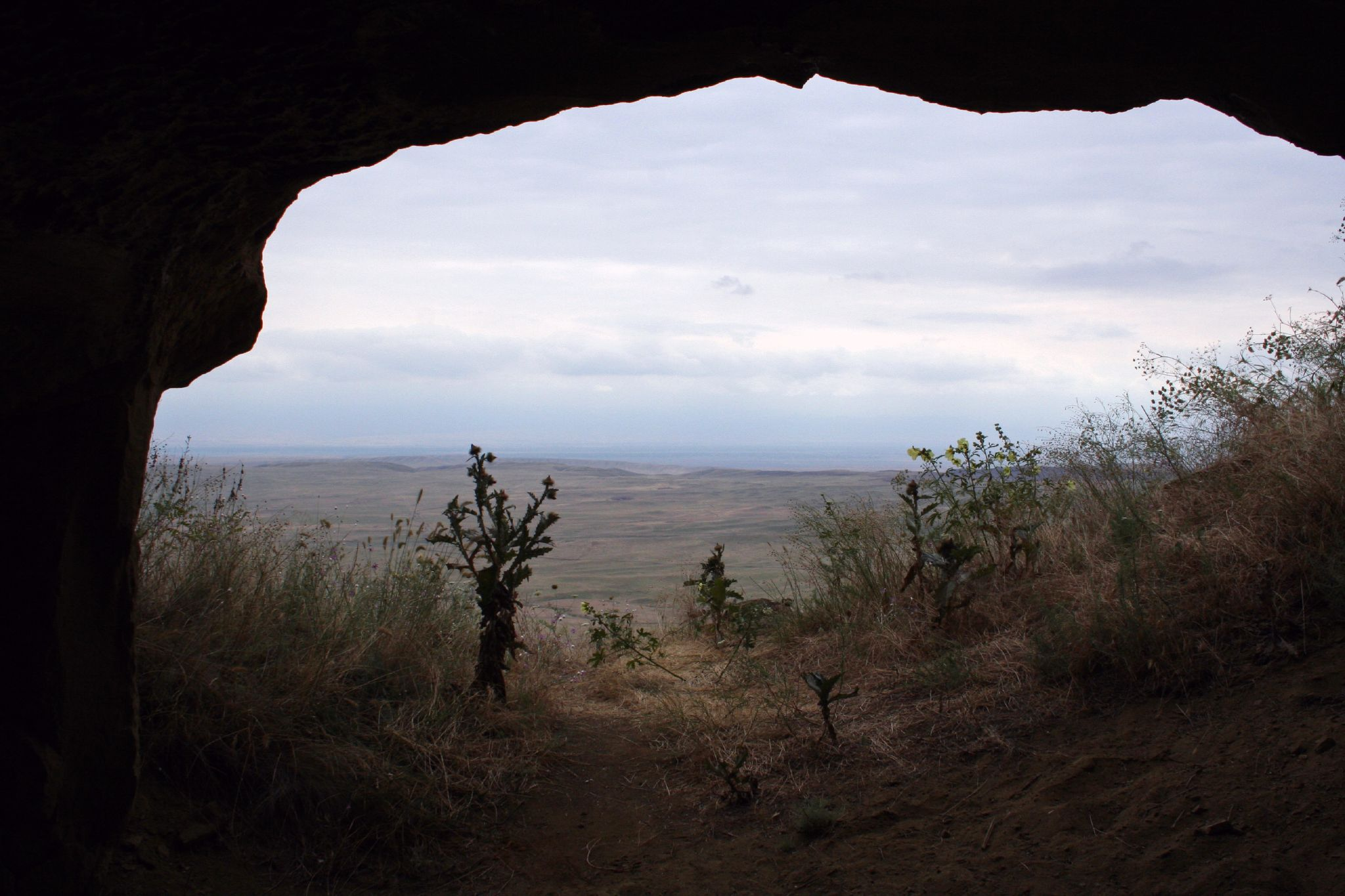 Udabno - View from Georgia to Azerbaijan